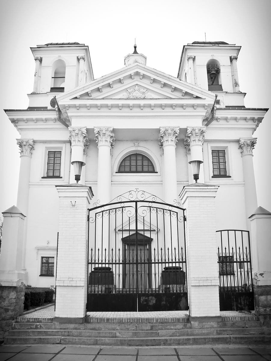 Church of John the Baptist, Bila Tserkva